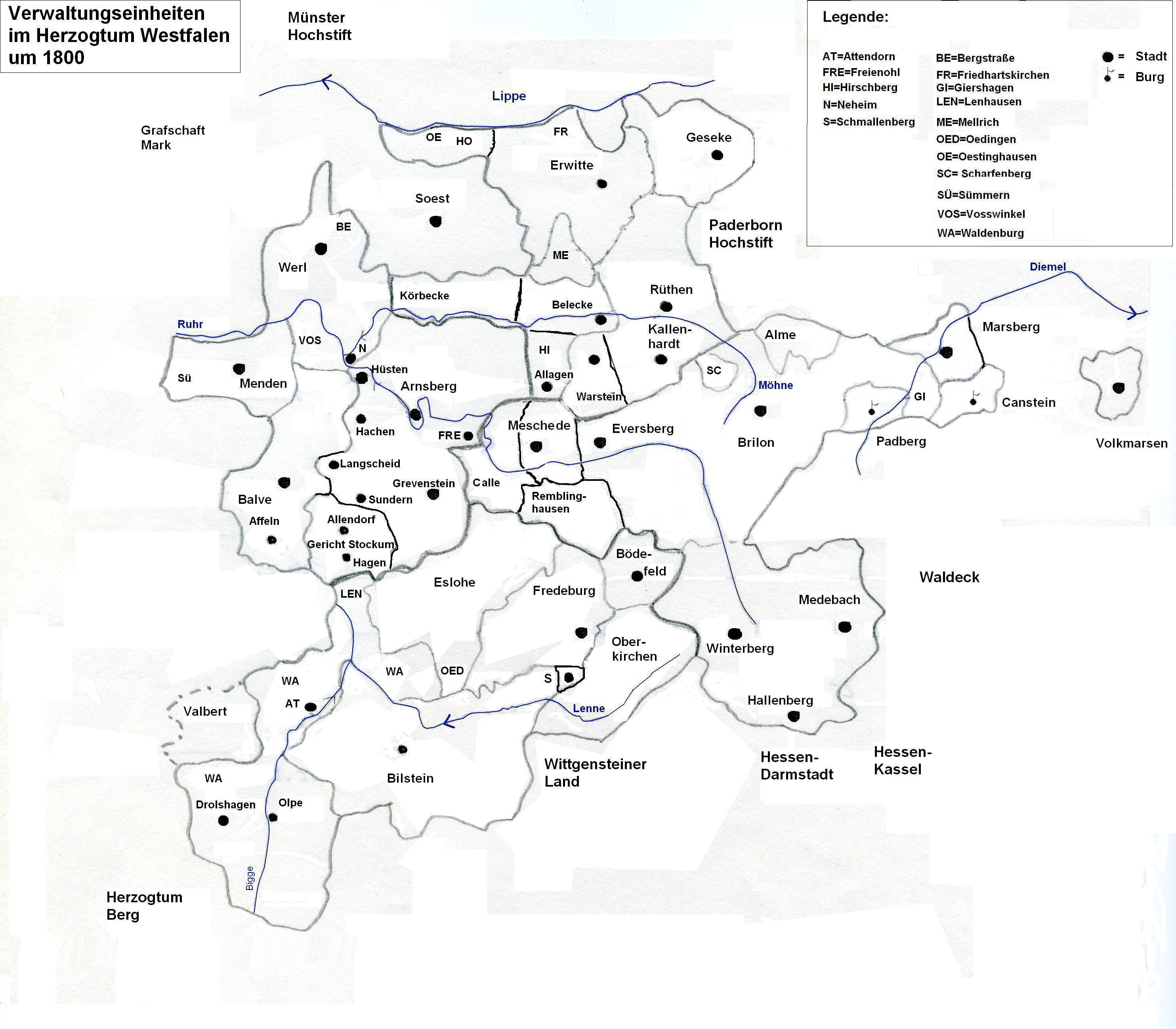 Administrative units in the Duchy of Westphalia year 1800